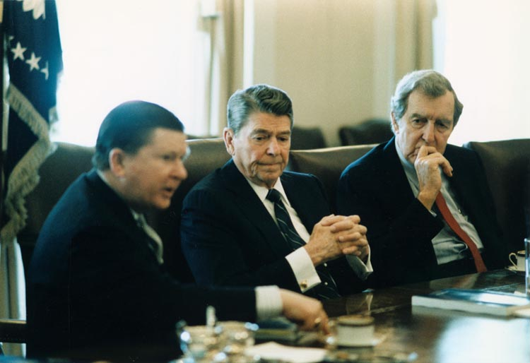 President Ronald Reagan receives the Tower Commission Report regarding the Iran-Contra affair in the Cabinet Room with John Tower and Edmund Muskie.